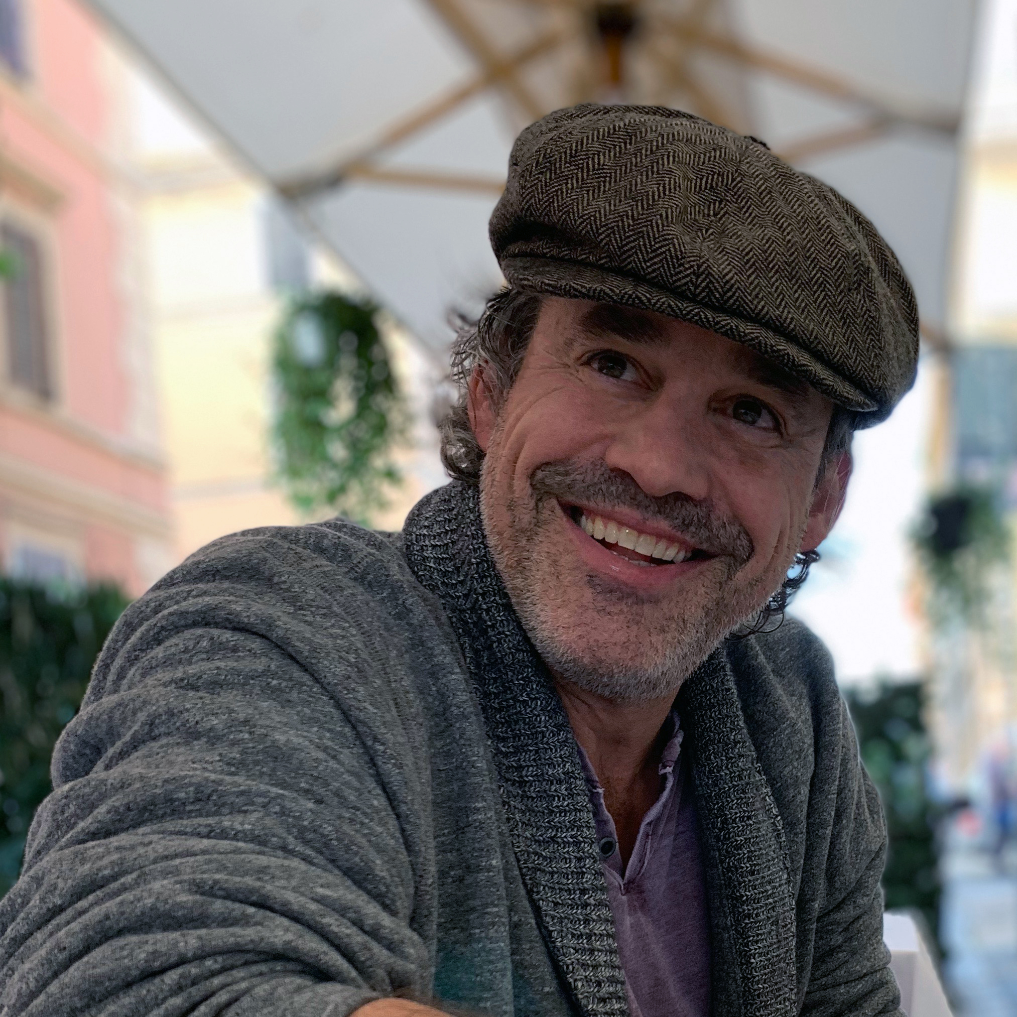 Photograph of Nicholas Brendon in Italy.